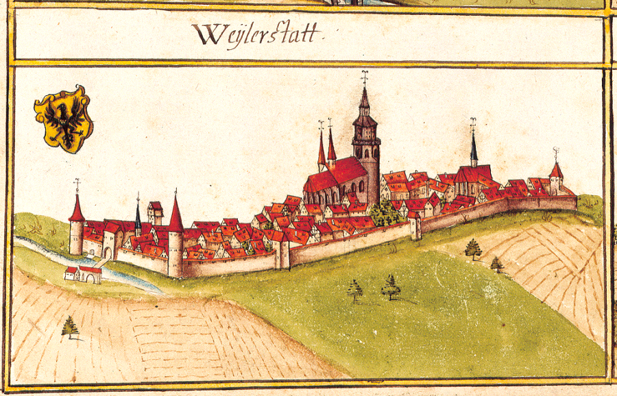 View of Weil der Stadt from the forest register books created by Andreas Kieser